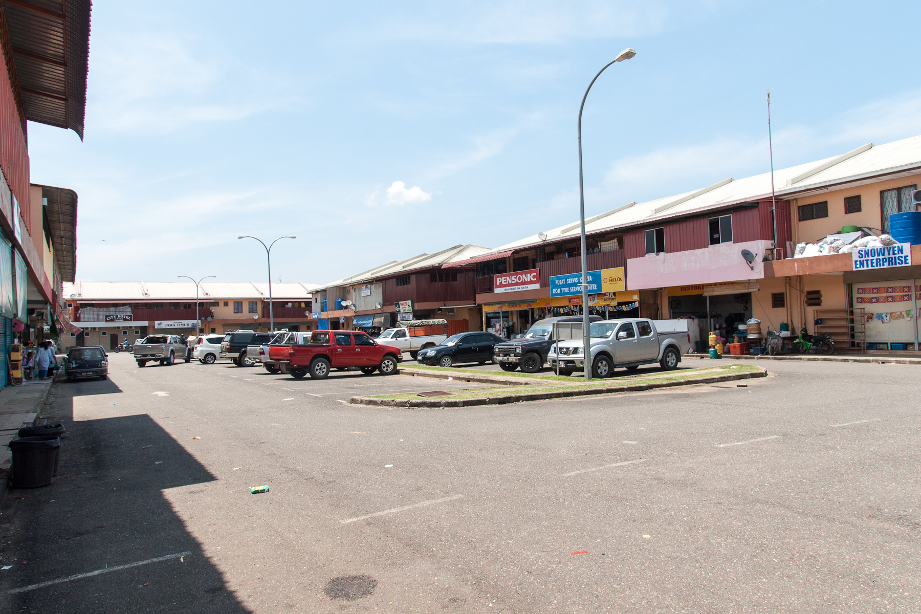 Town Center of Telupid, Shophouses